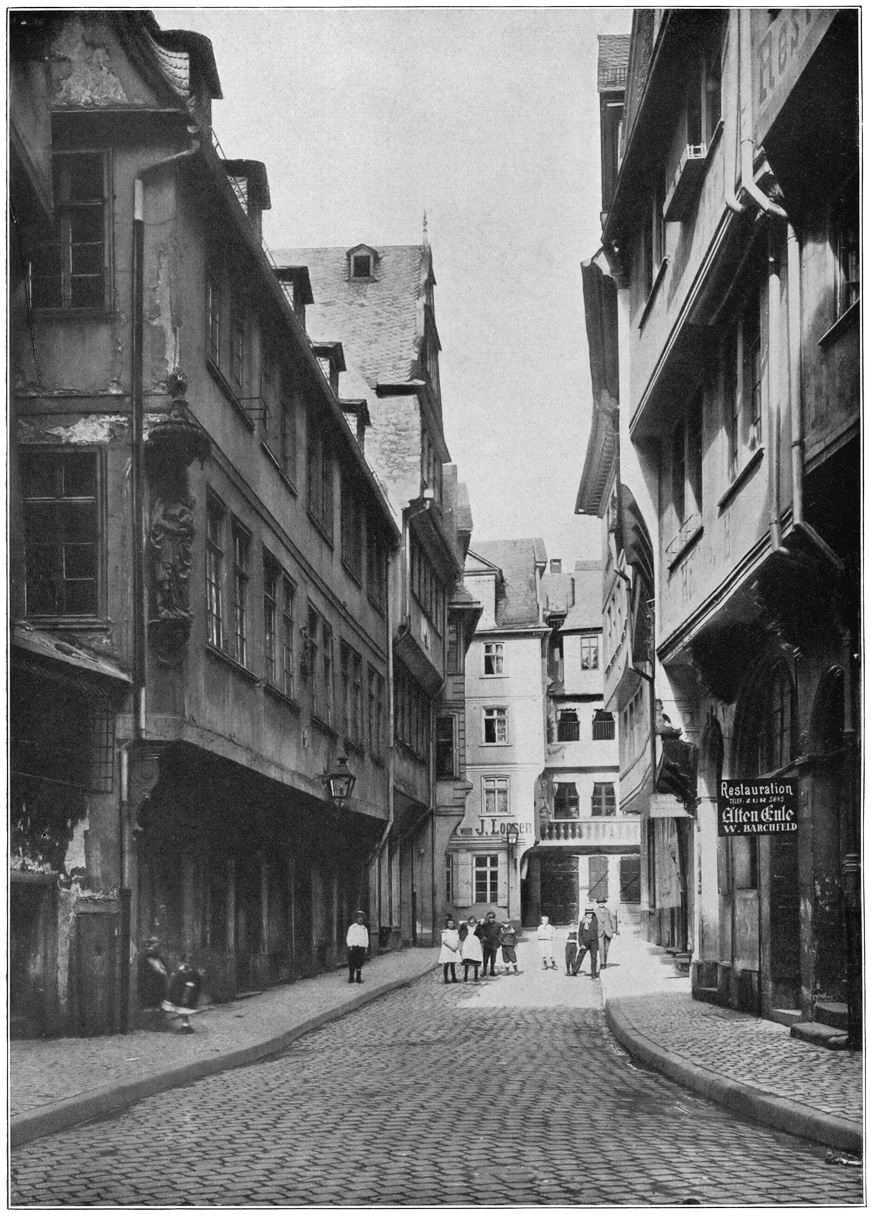 Frankfurt on the Main: Hinter dem Laemmchen (Behind the Lambkin) as seen from the west